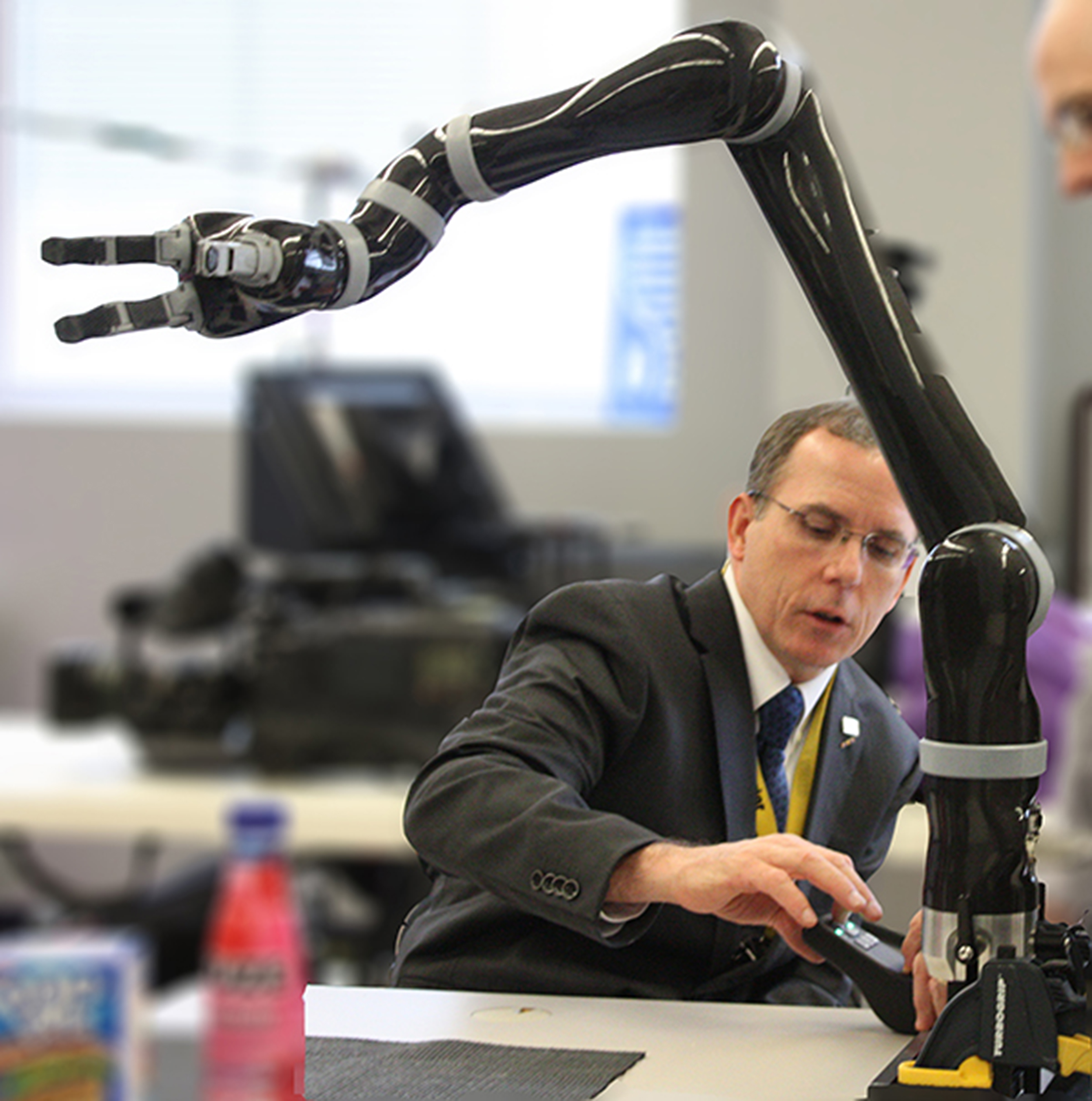 Dr. Rory A. Cooper with a robotic arm